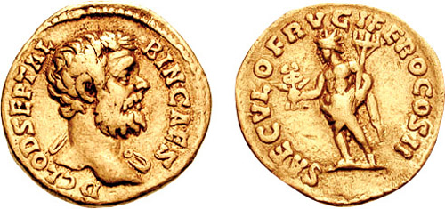 Clodius Albinus, as Caesar, 193-195 AD. AV Aureus (7.22 gm, 5h). Rome mint. Struck 194 AD. D CLOD SEPT AL-BIN CAES, bare-headed bust right, slight drapery on left shoulder SAECVLO FRVGIFERO COS II, Saeculum Frugiferum, radiate, standing left, holding caduceus and grain ears in extended right hand and cradling hay fork in left arm. RIC IV 9b (same obverse die); Pink I, pg. 26; BMCRE pg. 38, * note; Calicó 2423; cf. Cohen 70.